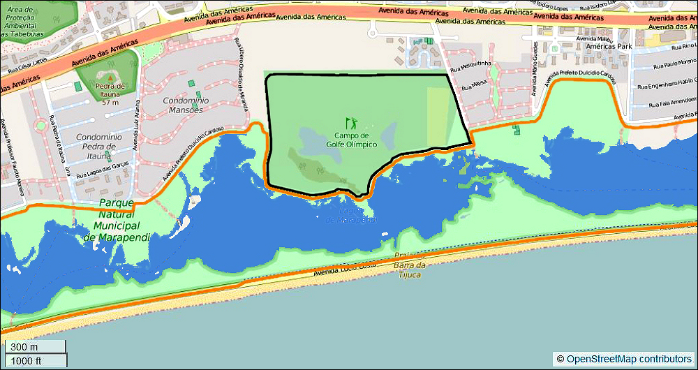 The Marapendi golf course (black outline) built within the Marapendi Natural Reserve for the 2016 Olympic Games in Rio de Janeiro, Brazil